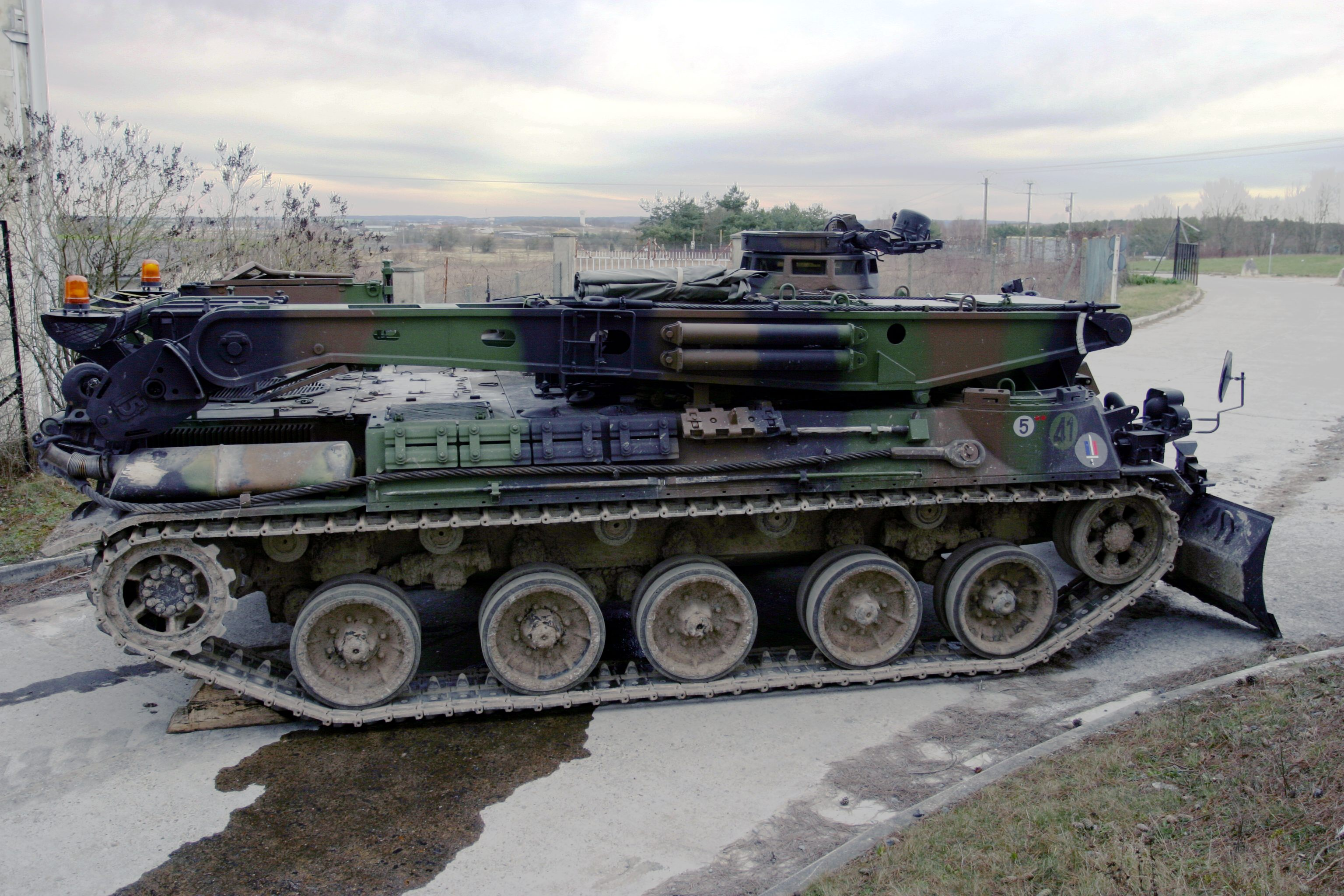 Photograph of an AMX-30D armored recovery vehicle of the French Army